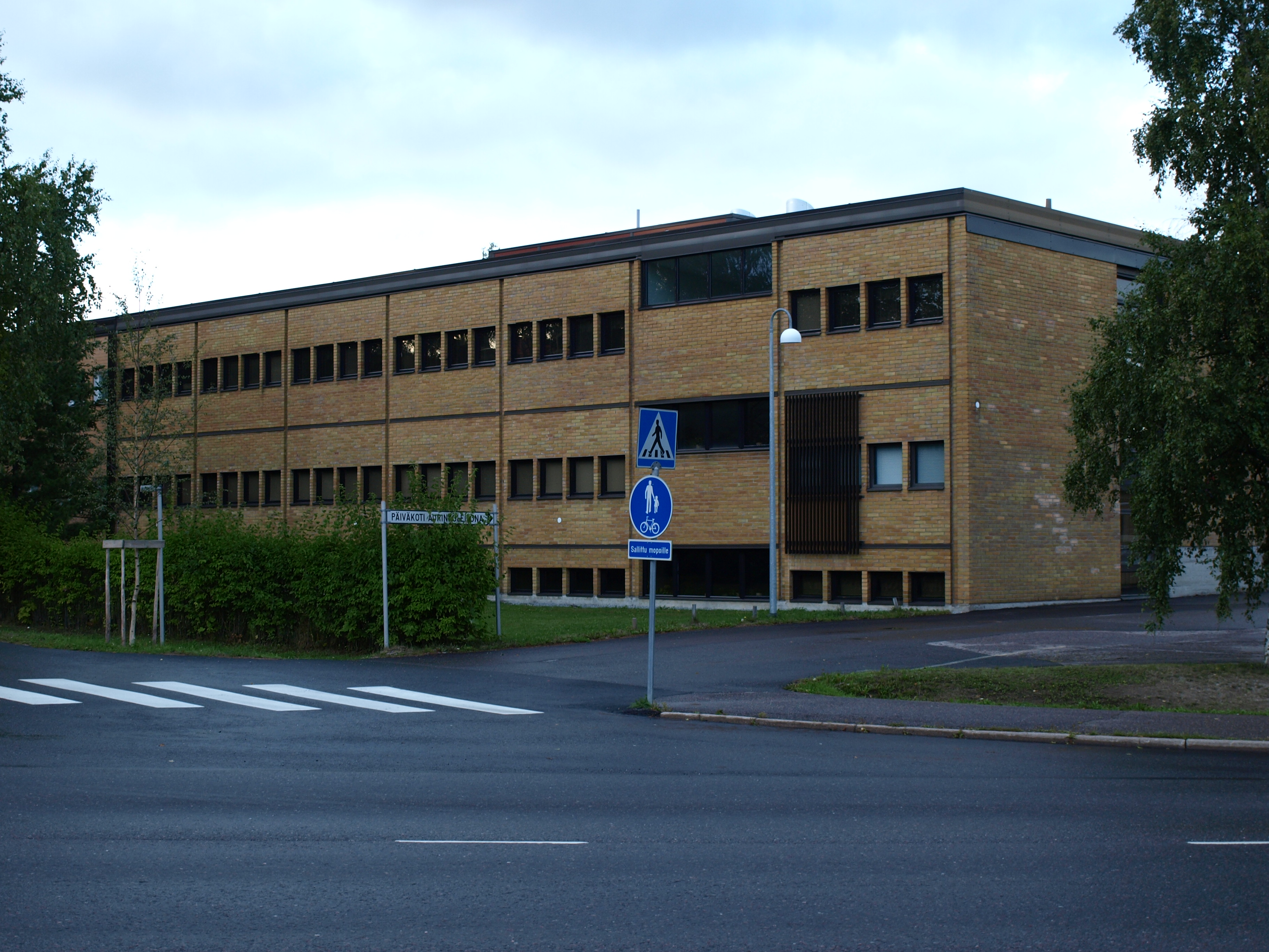 Municipal Health Center in Halikko, Finland